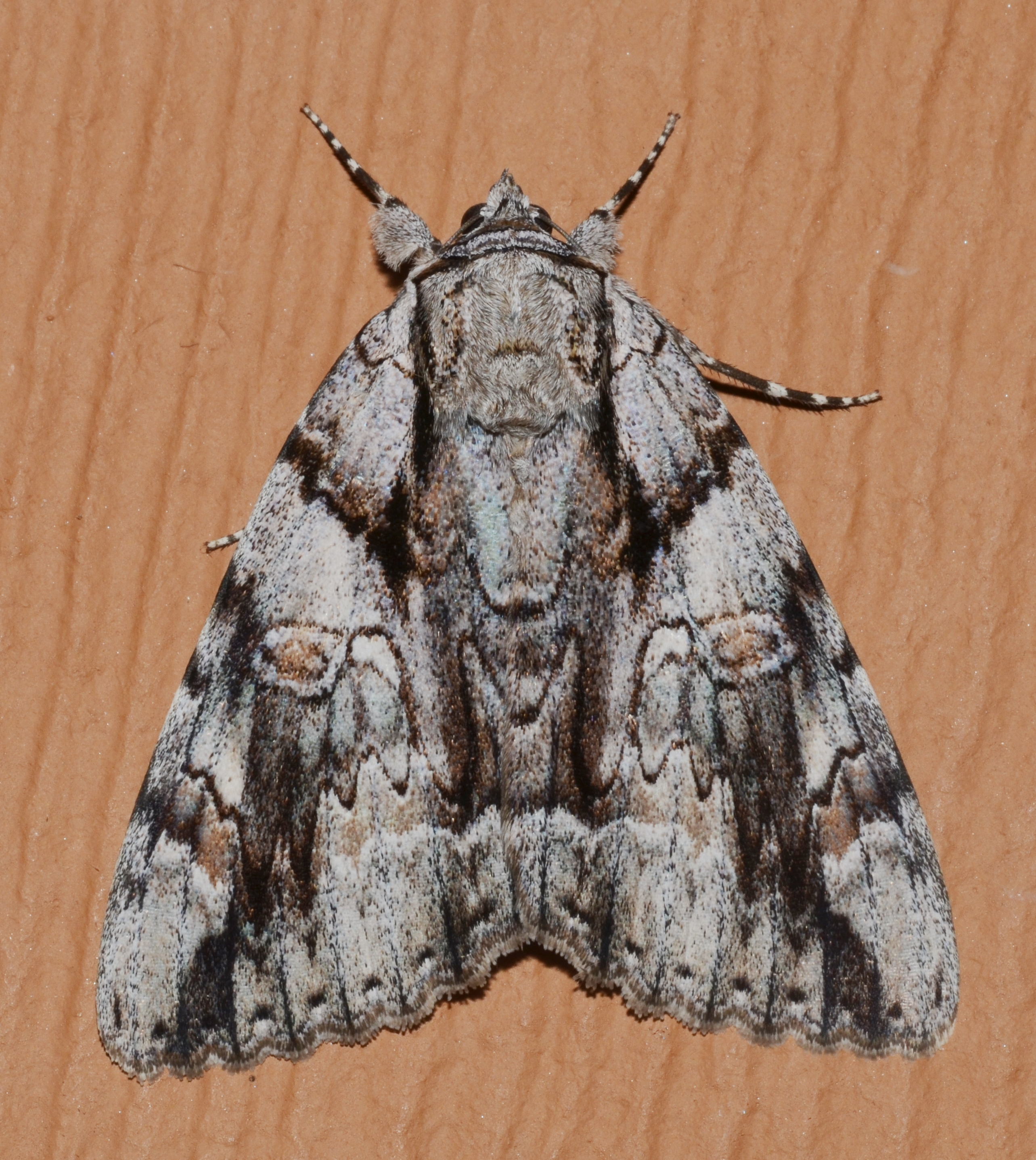 Cuivre River State Park 9/27/14